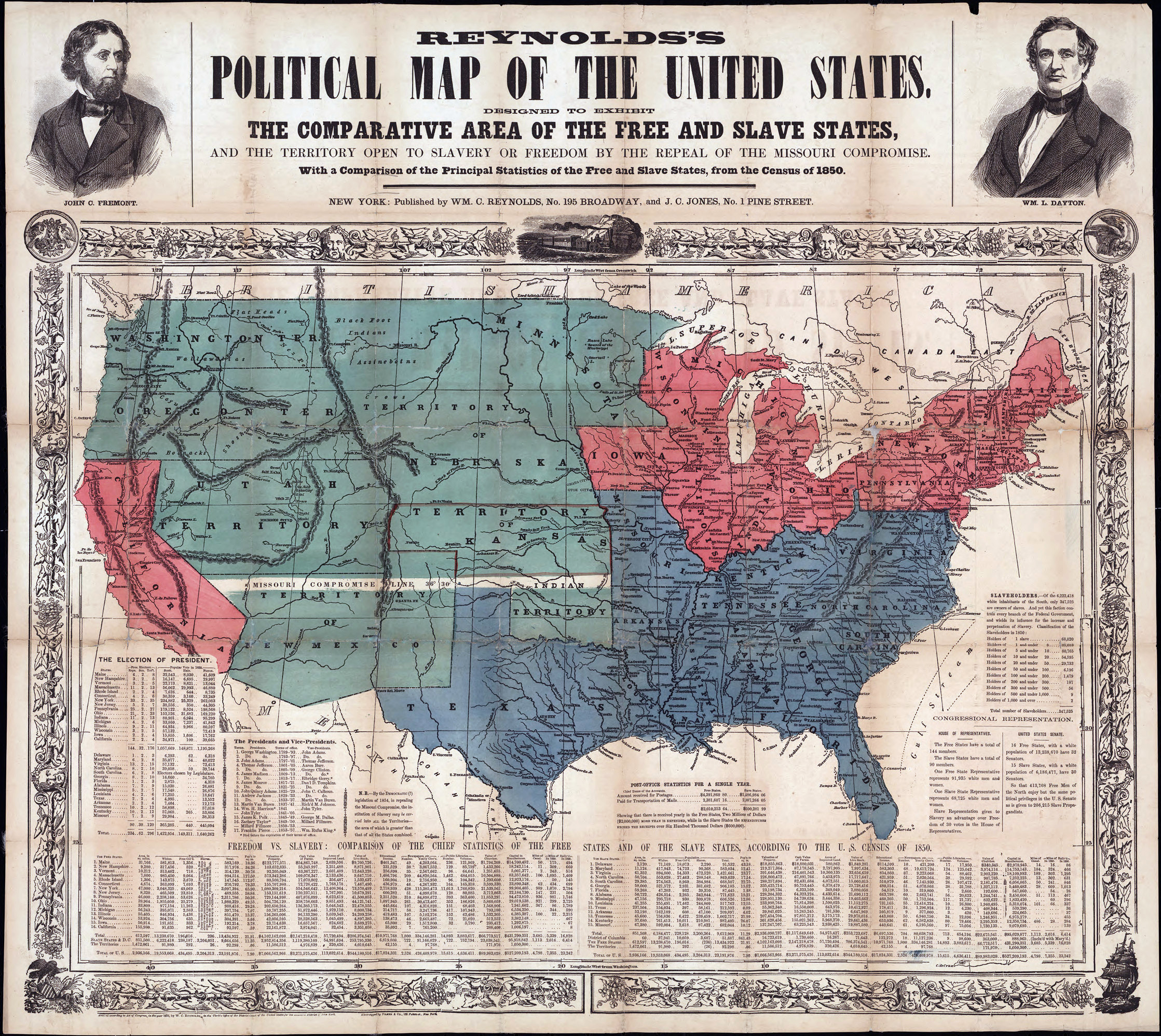 Printed on map: "Designed to exhibit the comparative area of the free and slave states and the territory open to slavery or freedom by the repeal of the Missouri compromise. With a comparison of the principal statistics of the free and slave states, from the census of 1850." Portraits of John C. Fremont and W.L. Dayton are on map borders.